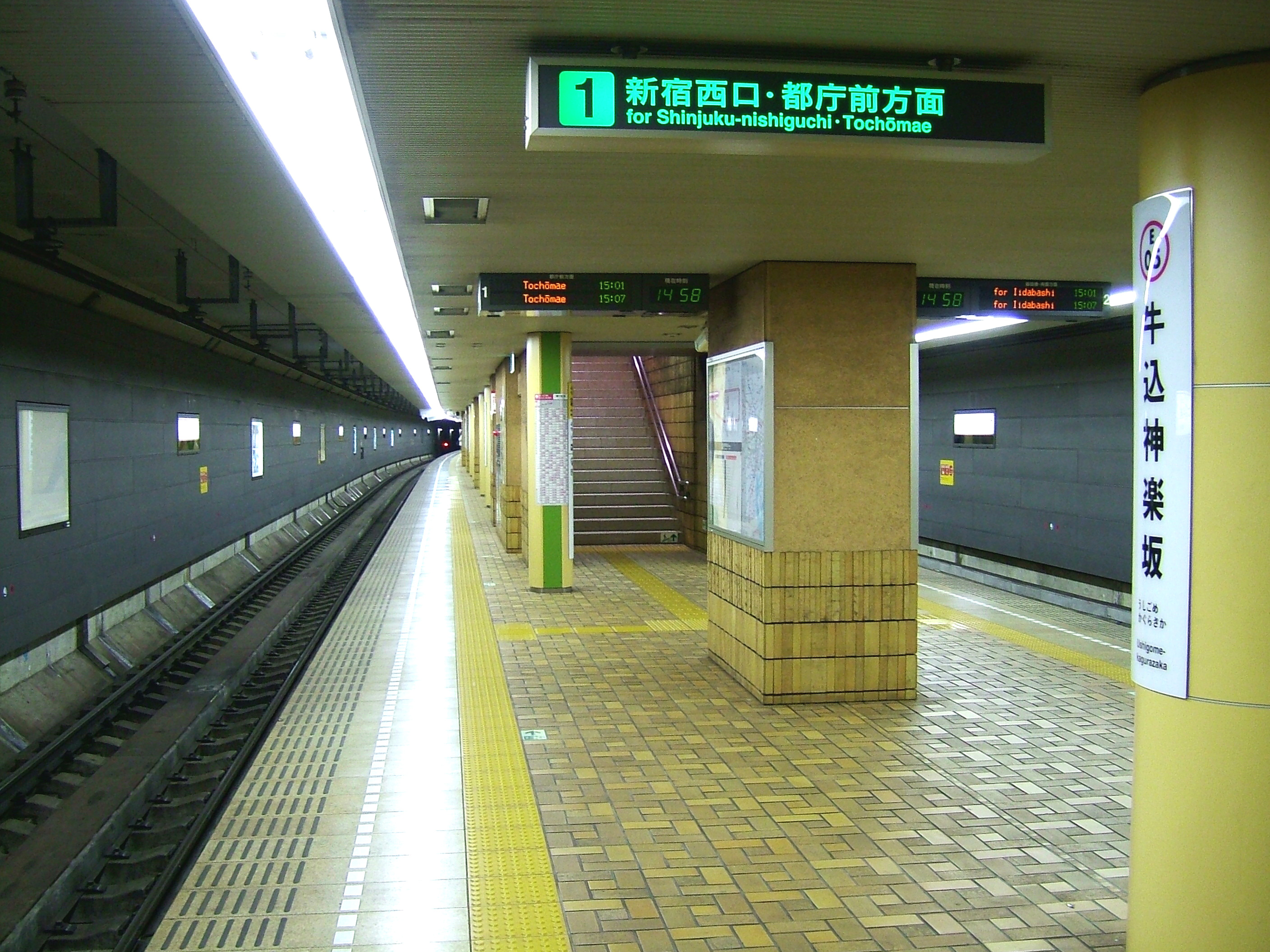 The platform at Ushigome-Kagurazaka Station on the Toei Ōedo Line in Shinjuku city, Tokyo, Japan